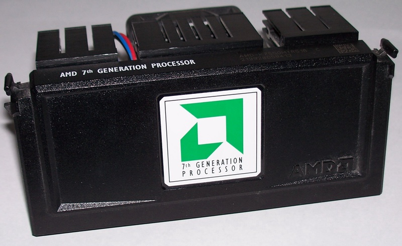 Early versions of the Slot-A Athlon's with the 0.25um Argon cores were simply labeled "AMD 7th Generation Processor".